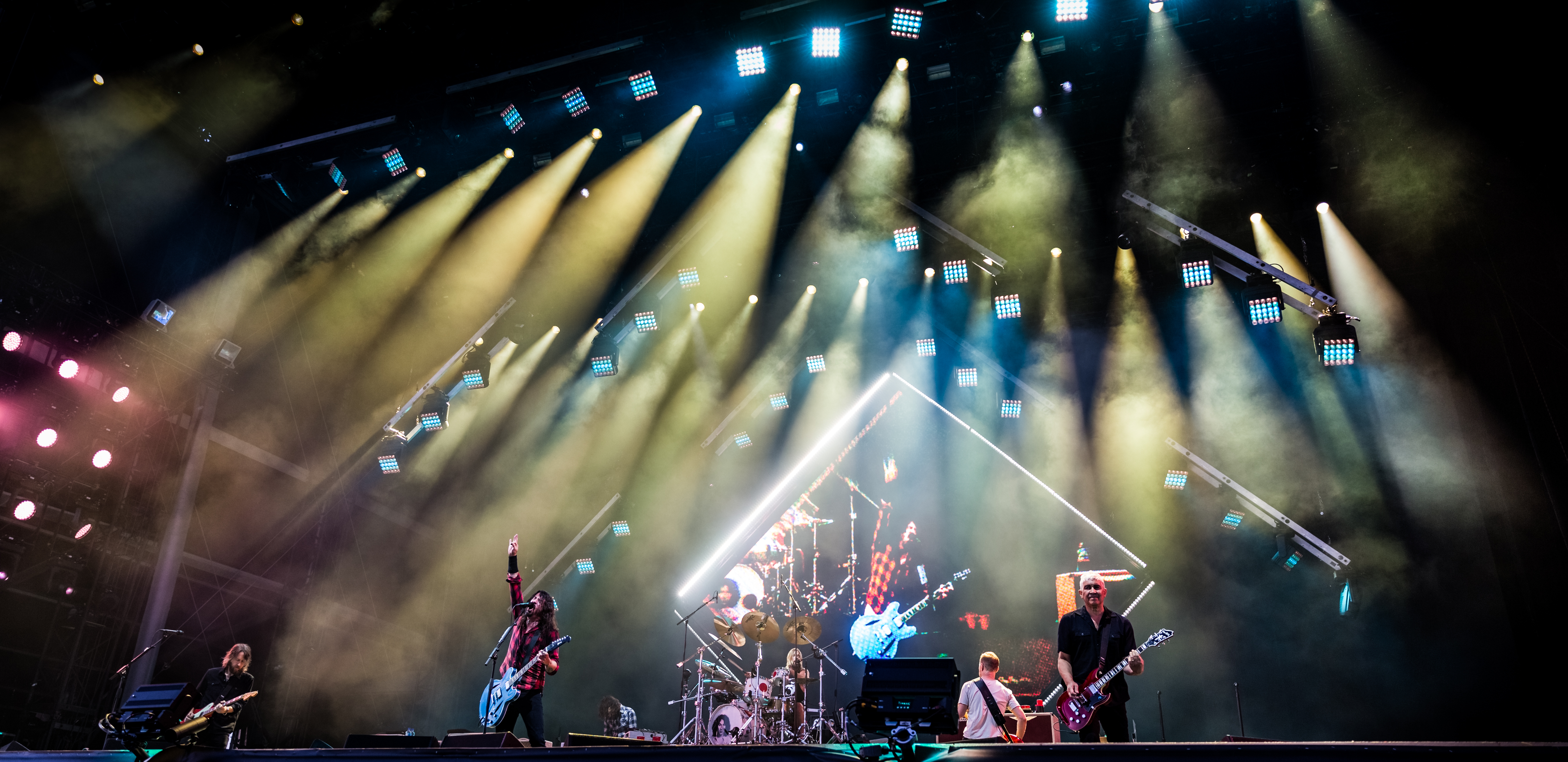 Foo Fighters - Rock am Ring 2018